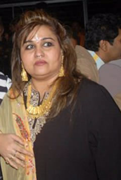 Reena Roy at Govinda Birthday Party And Special Screening Of Bhagam Bhag